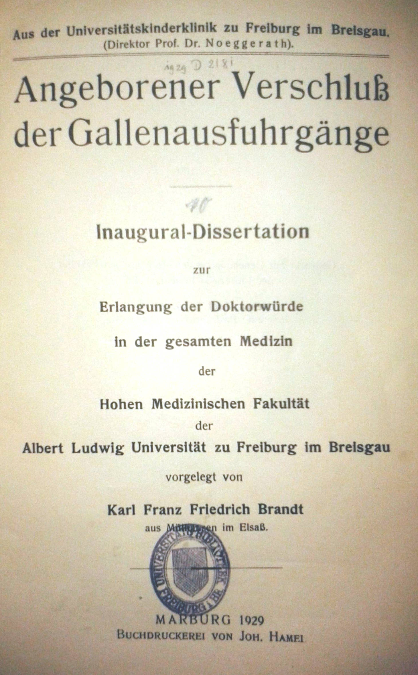 Karl Brandt - Title page of the Doctoral Dissertation 1929